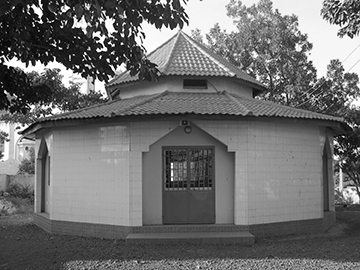 Thierno Aliou Bhoubha Ndiyan's home in Labe.